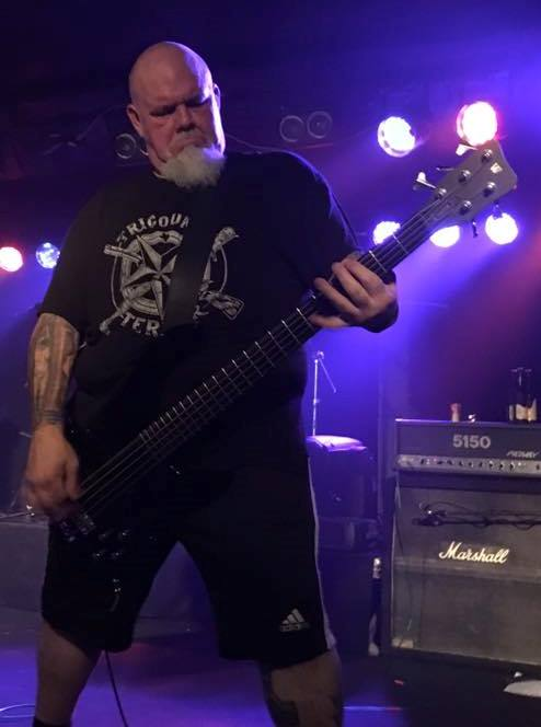 Live in Russia